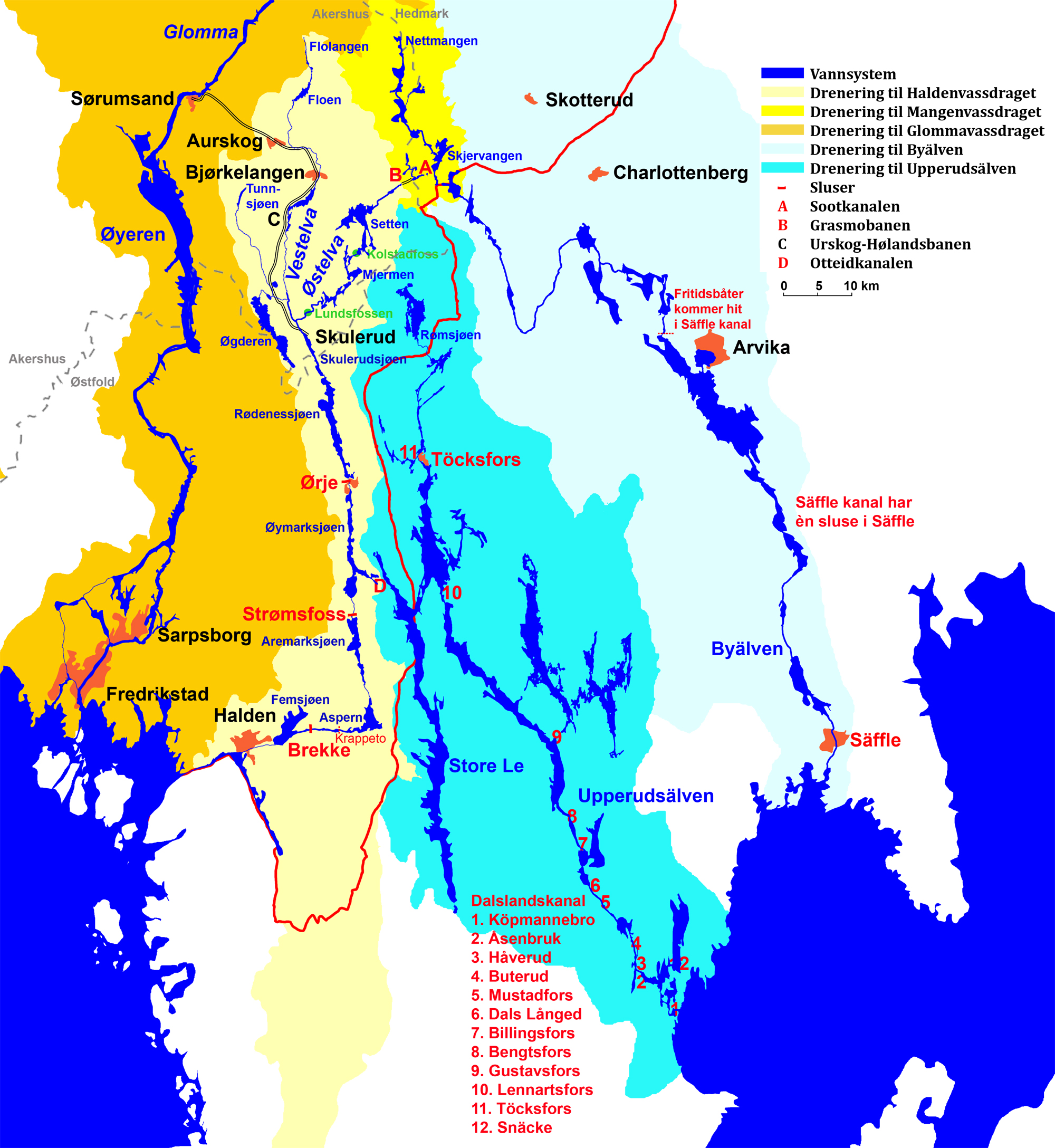 Map of Haldenvassdraget (Halden waterway) with neighbour waterways